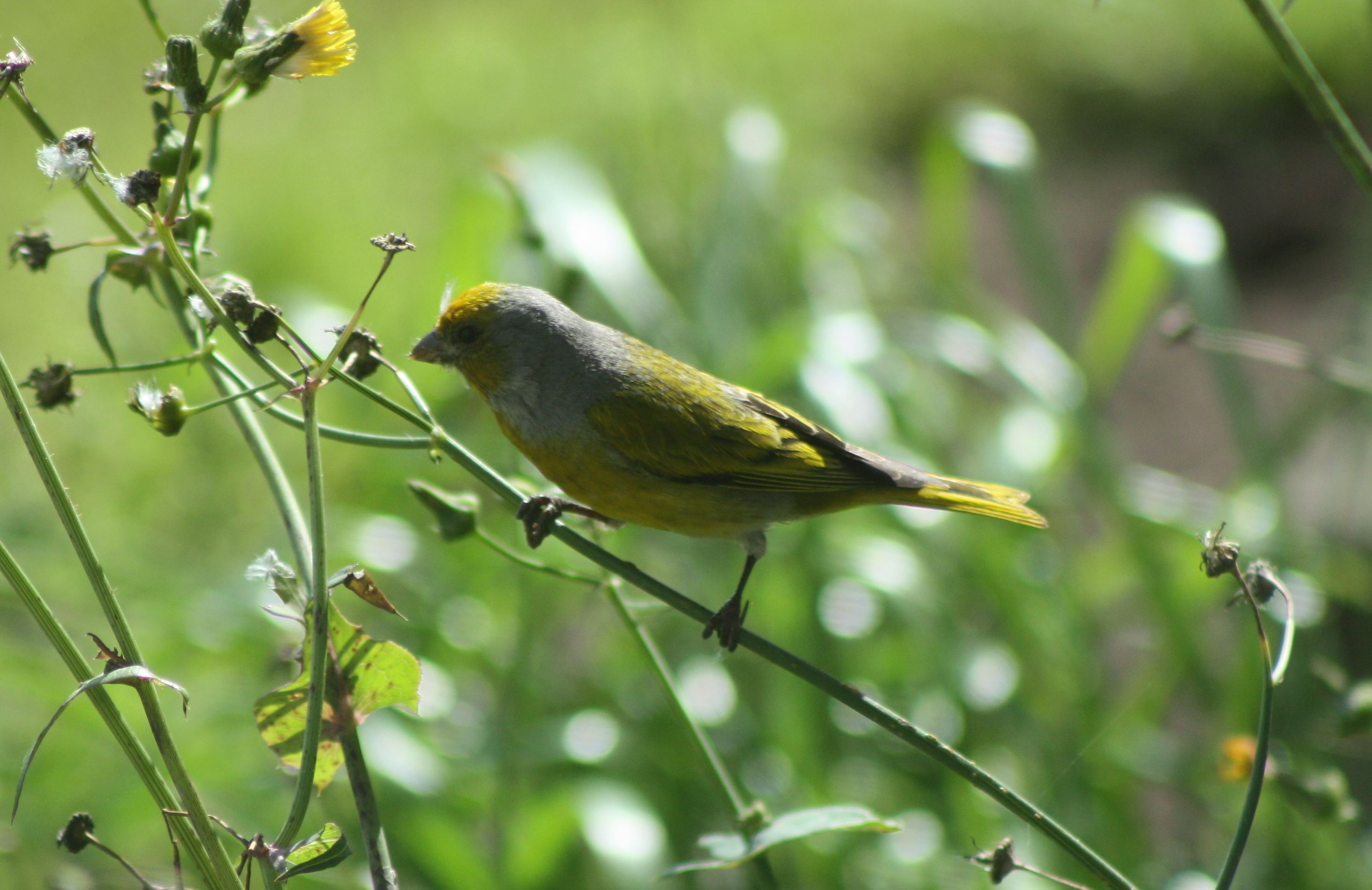 Cape Canary